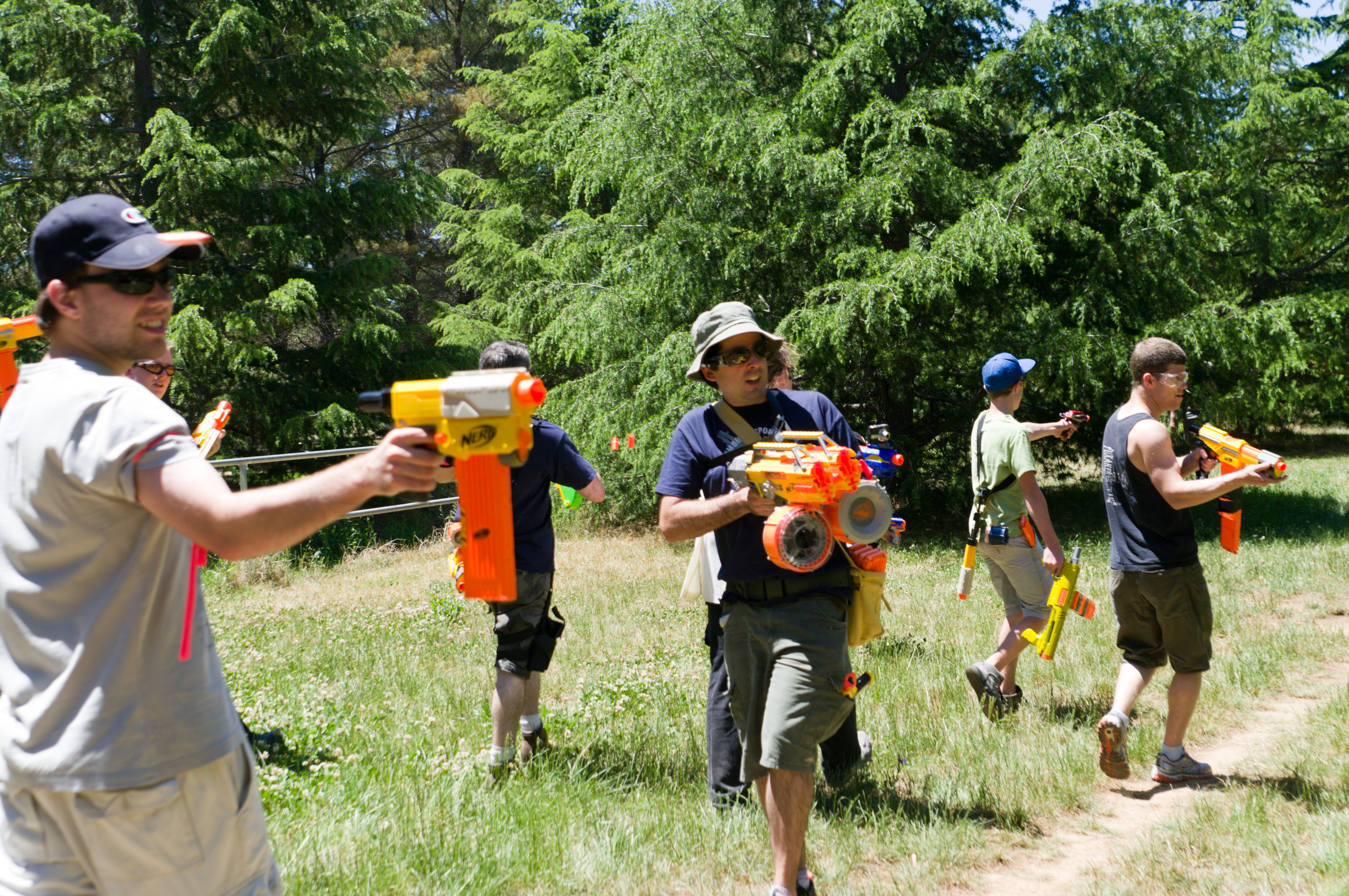 Various Images from the Saturday, 5th November 2011 HvZ Game played in Haig Park Canberra